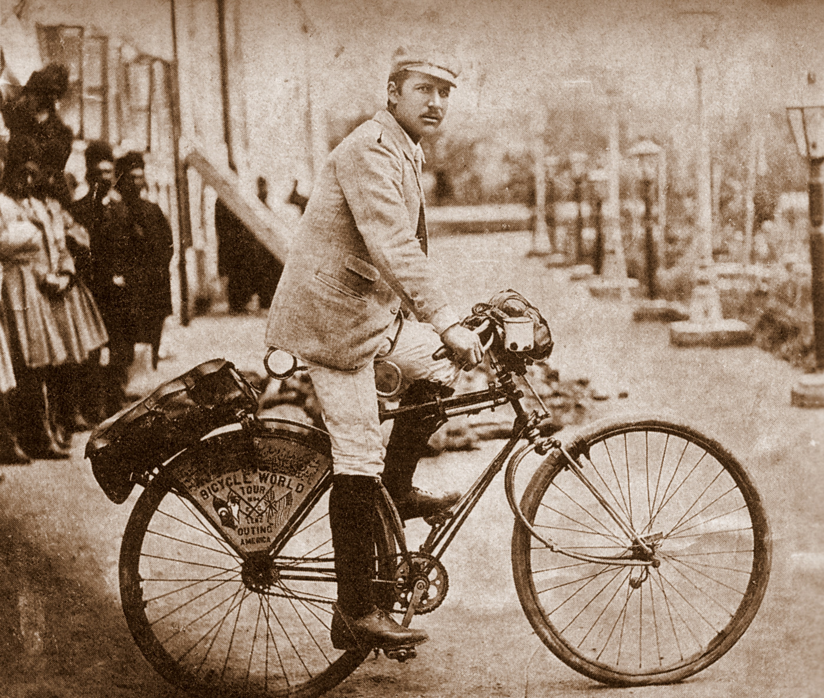 Last known photo of Frank Lenz